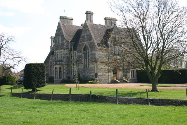 The Old Rectory